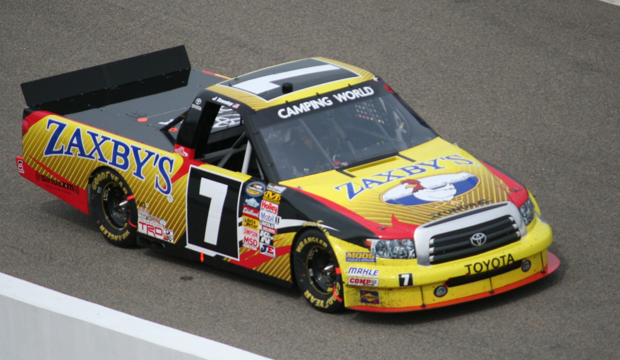 John Wes Townley drives the No. 7 Zaxby's Toyota on pit road during the North Carolina Education Lottery 200 at Rockingham Speedway, Rockingham, NC, April 14, 2013